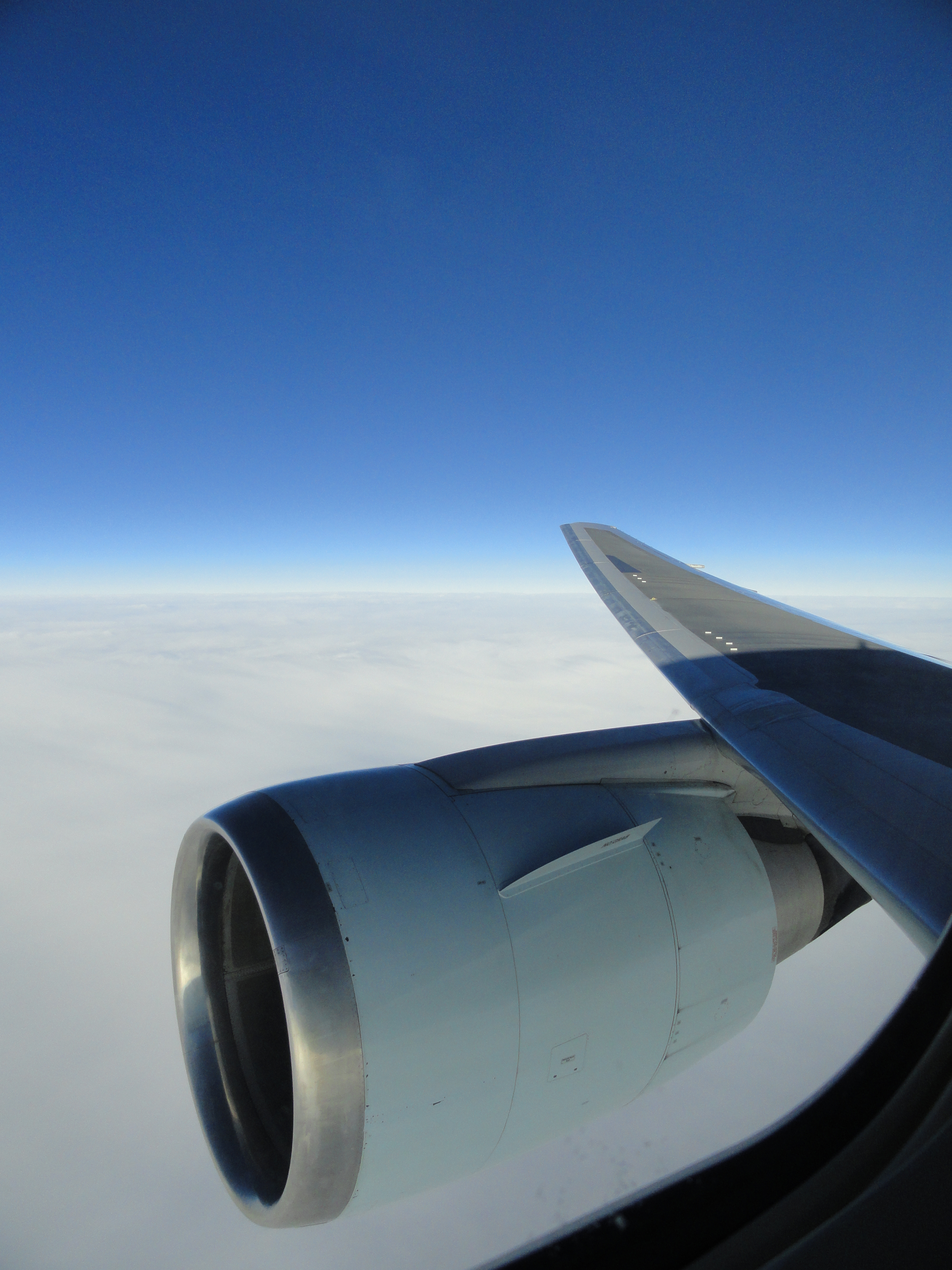 Air Canada Boeing 767-300ER CF6